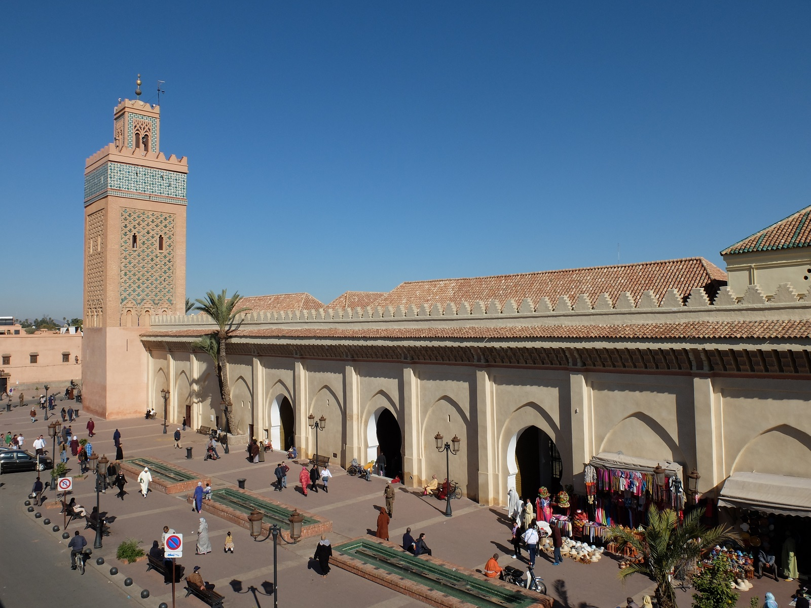 View of the Kasbah Mosque (Marrakech) from the rooftop of a building across the square.